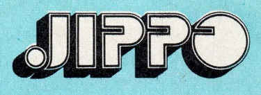 Logo of Kids' magazine Jippo, variant of French Pif